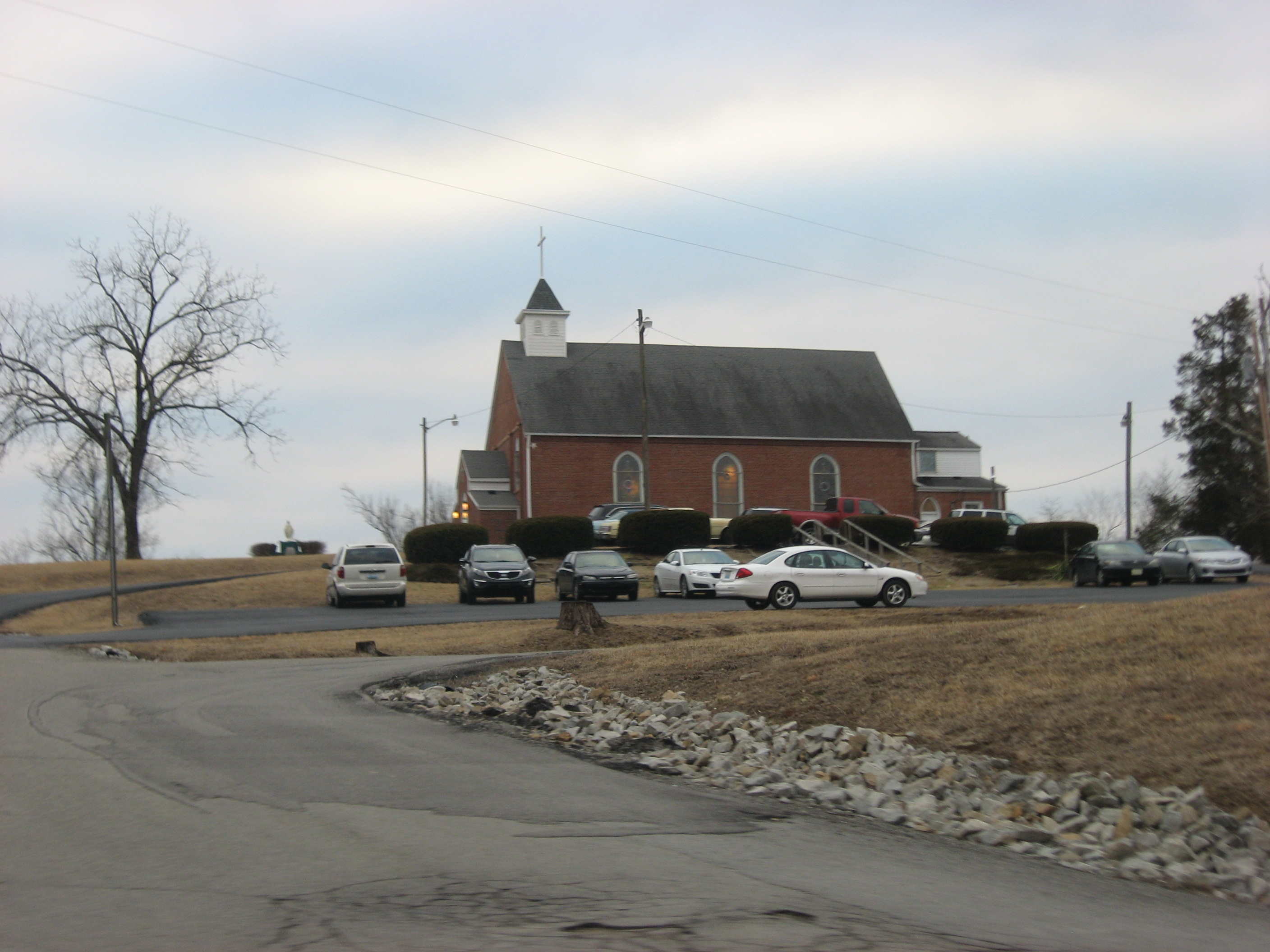 Eastern side of St. Augustine Catholic Church, located off Kentucky Route 88 east of Leitchfield in Grayson County, Kentucky, United States. Built in 1854, it is listed on the National Register of Historic Places.